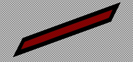 US Navy Service Stripe Red E-1 through E-6